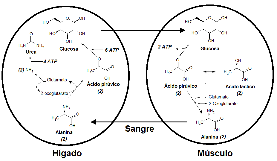 Cori Cycle with alanine scheme